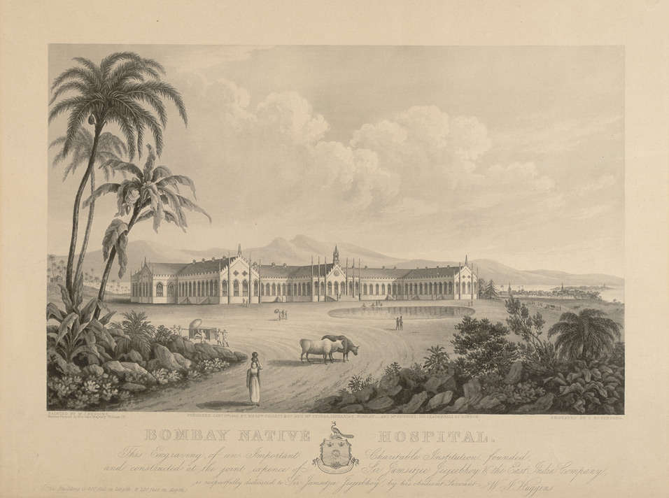 Jamsetjee Jeejeebhoy Hospital in Bombay Engraver; Charles Rosenberg Artist: W.J Huggins (1781-1845) Medium: Engraving, 19.x30. centimetres Publishers: Collett & Co. Place of Publication: Bombay Publishing year: 1843 Caption "Engraving of the Jamsetjee Jeejeebhoy Hospital in Bombay by C. Rosenberg after W. J. Huggins and published by Collett and Co. in 1843. Inscribed: 'Bombay Native Hospital. This engraving of an important Charitable Institution, founded, and constructed at the joint expense of Sir Jamsetjee Jeejeebhoy & the East India Company, is respectfully dedicated to Sir Jamsetjee Jeejeebhoy, by his obedient servant, W. J. Huggins. (This Building is 400 feet in length & 280 feet in depth)."